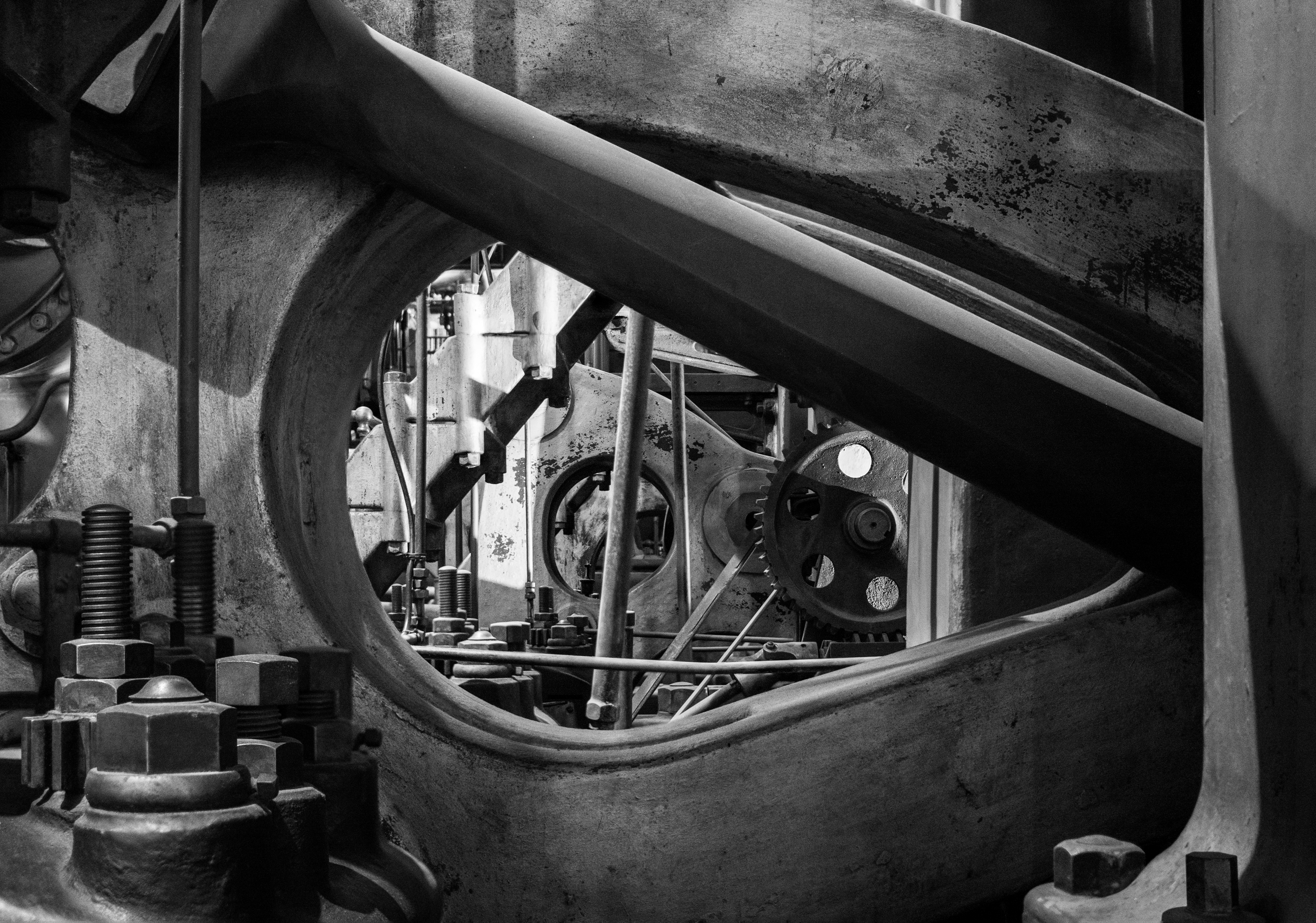 Waterworks Museum in Boston